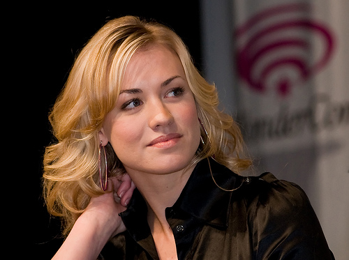 Australian actress, Yvonne Strahovski, at the Chuck panel at WonderCon 2009 in San Francisco.